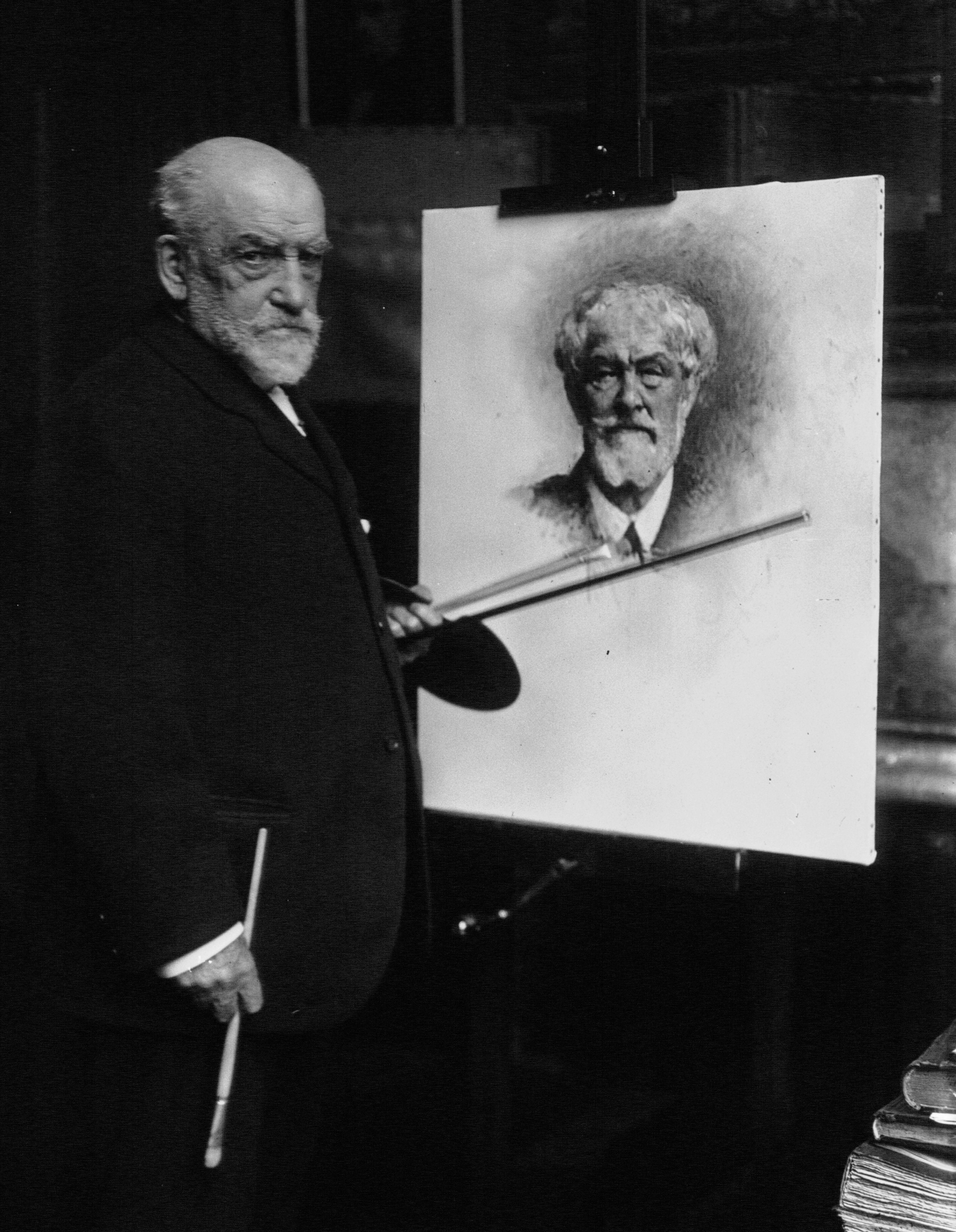 Léon Bonnat (1833-1922) painting a portrait of Alfred Roll (1845-1919).